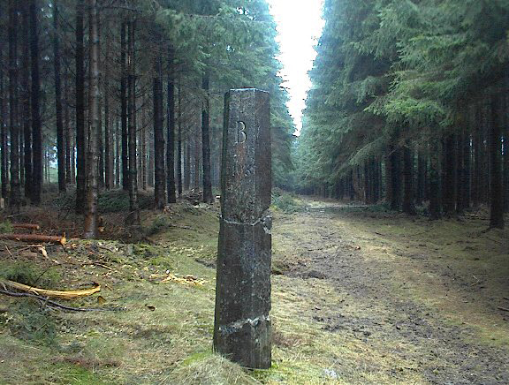 Built in 1863-1865 by the Kingdom of Prussia. It is located exactly on the border between the municipalities Trois-Ponts and Sankt-Vith. With the Treaty of Versailles of 1920, the border line lost its right to exist. The stone was destroyed in 2018 by road works and is located across the street. The upper part was still an original, whereas the lower part was rebuilt from cement.